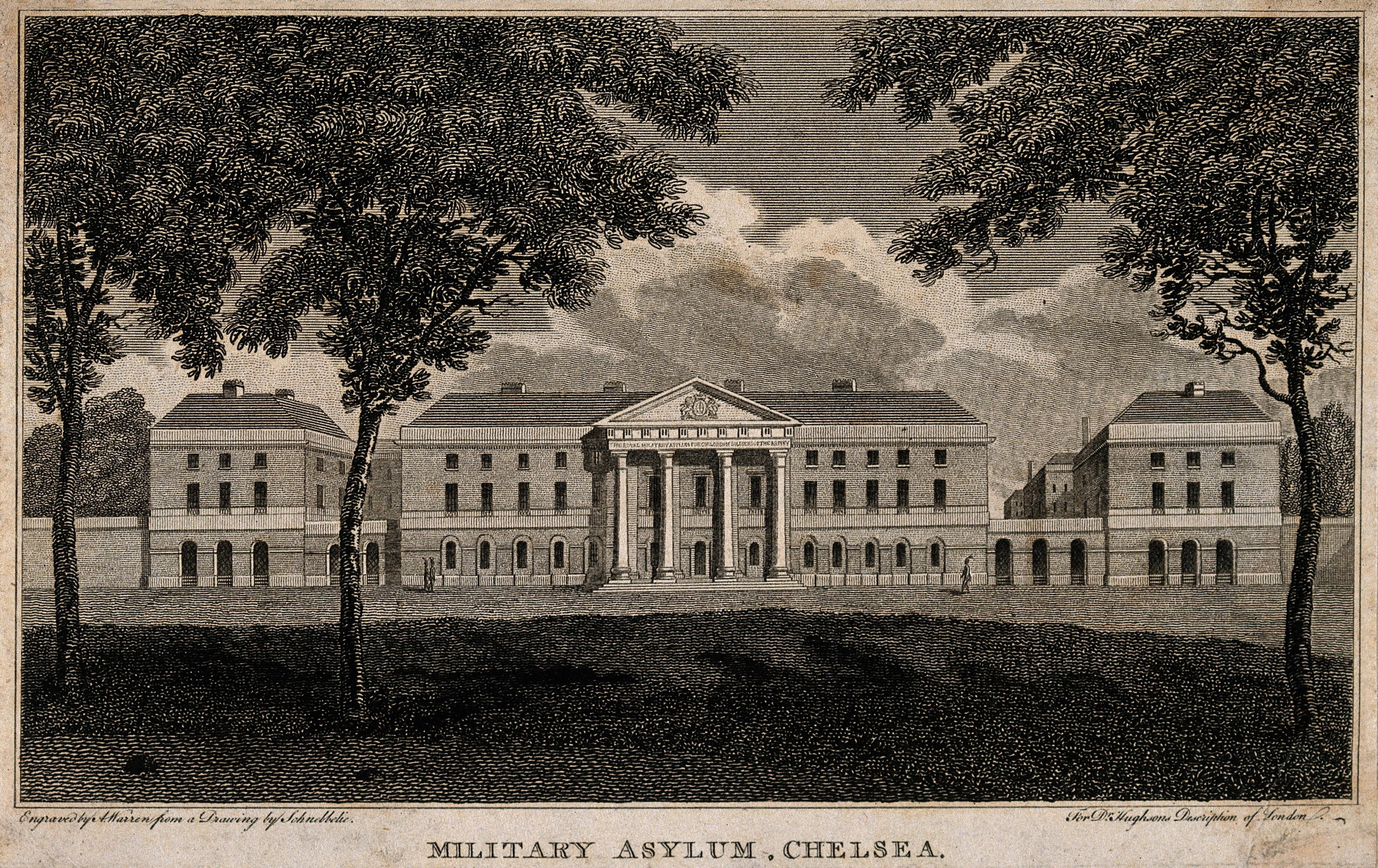 Royal Military Asylum, Chelsea. Engraving by A. Warren after R. B. Schnebbelie. Iconographic Collections Keywords: Robert Blemmel Schnebbelie; John Sanders; Royal Military Asylum (Chelsea); Alfred William Warren